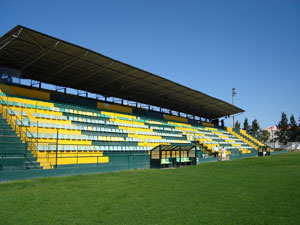 Campo da Liberdade - Estádios de Futebol.